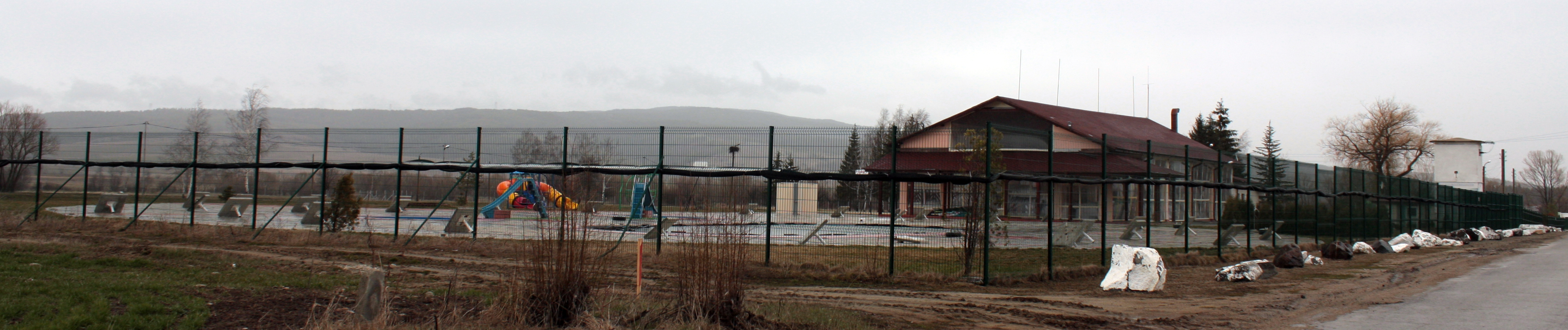 Mineral Pool in Bechinski Bani